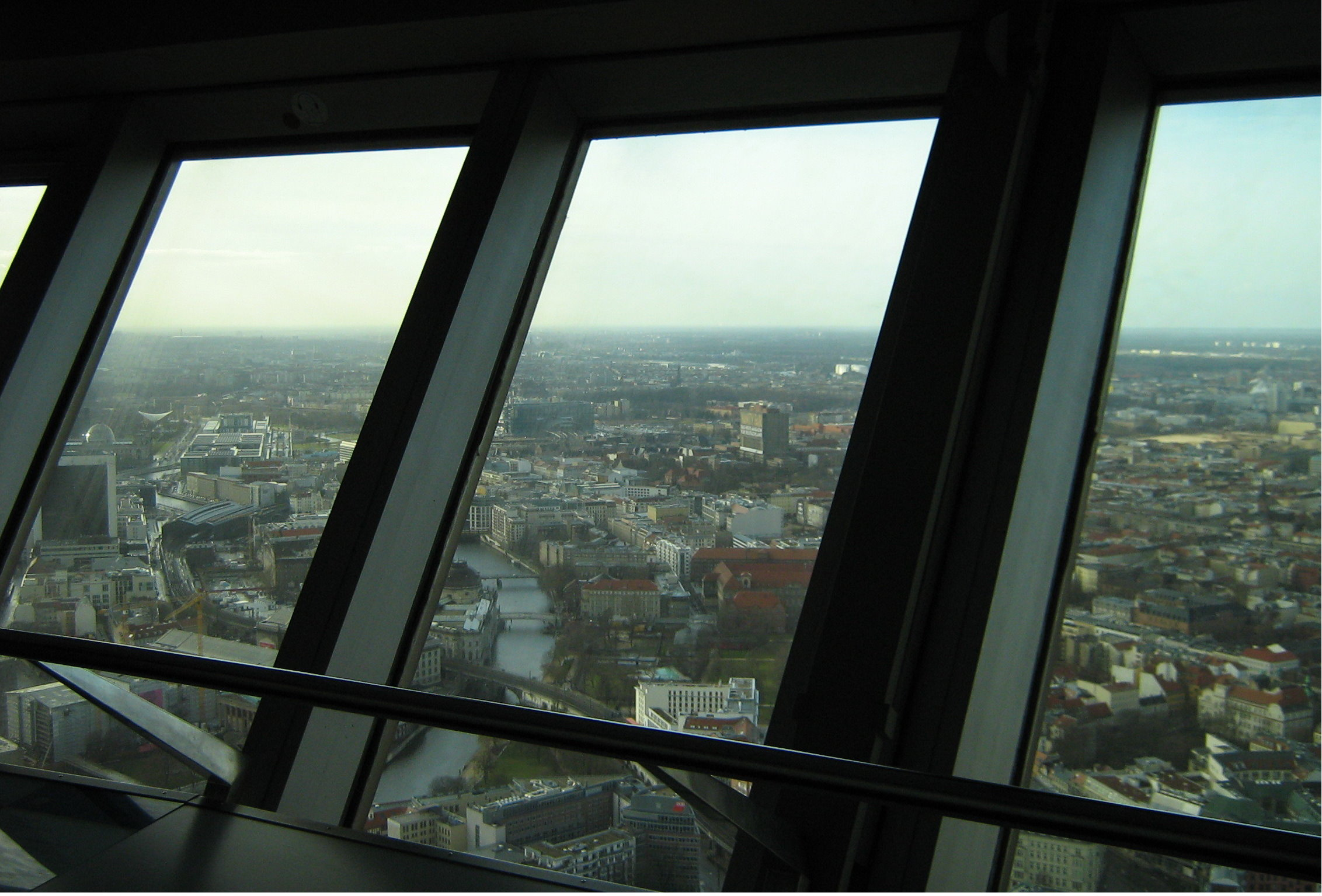 View from inside (ball/panorama floor) TV-Tower Berlin/Germany (Fernsehturm)